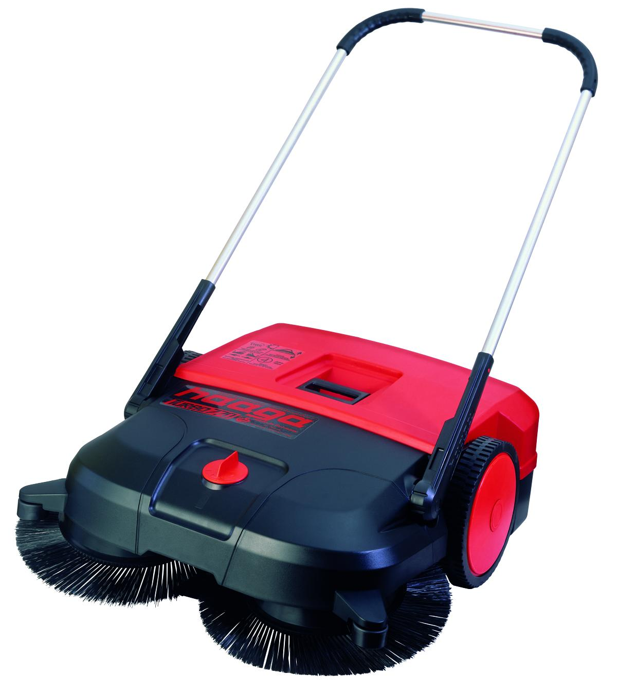 Haaga Turbo 770